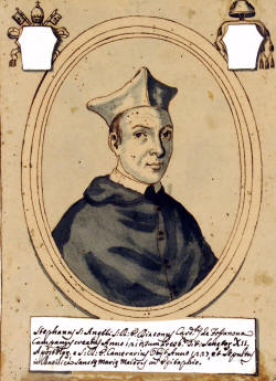 Cardinal Stephanus de Ceccano